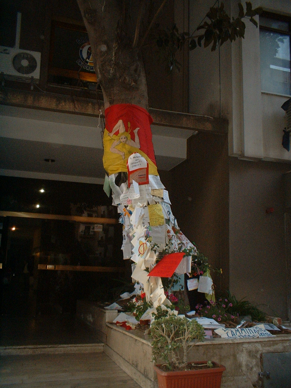 Falcone's Tree, a sicilian antimafia symbol. Sicilianu: Àrvulu Falcone, nu sìmmulu di l'antimafia siciliana.